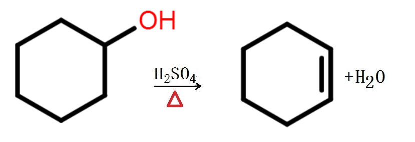 Cyclohexane catalytical synthesis from Cyclohexanol